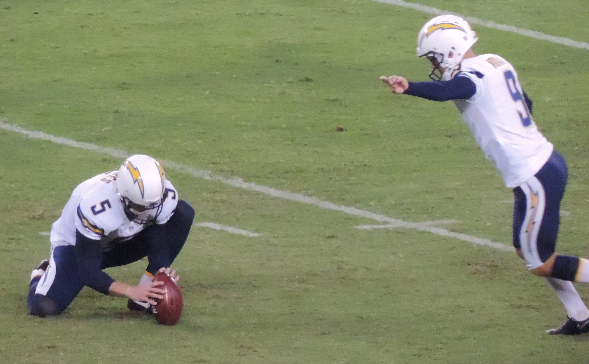 Nick Novak attempting a field goal against the Arizona Cardinals on September 8, 2014.